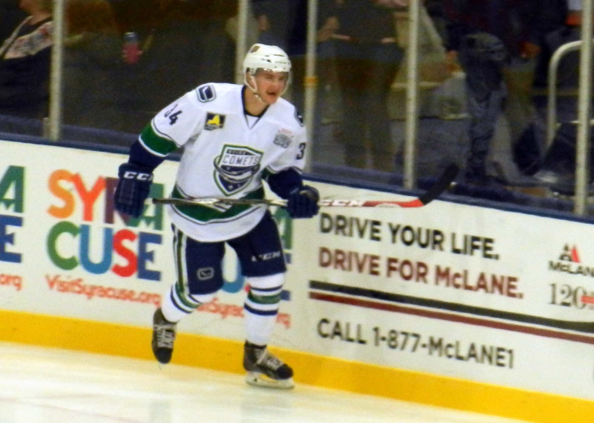 Carter Bancks playing for the American Hockey League's Utica Comets during the Frozen Dome game in Syracuse NY